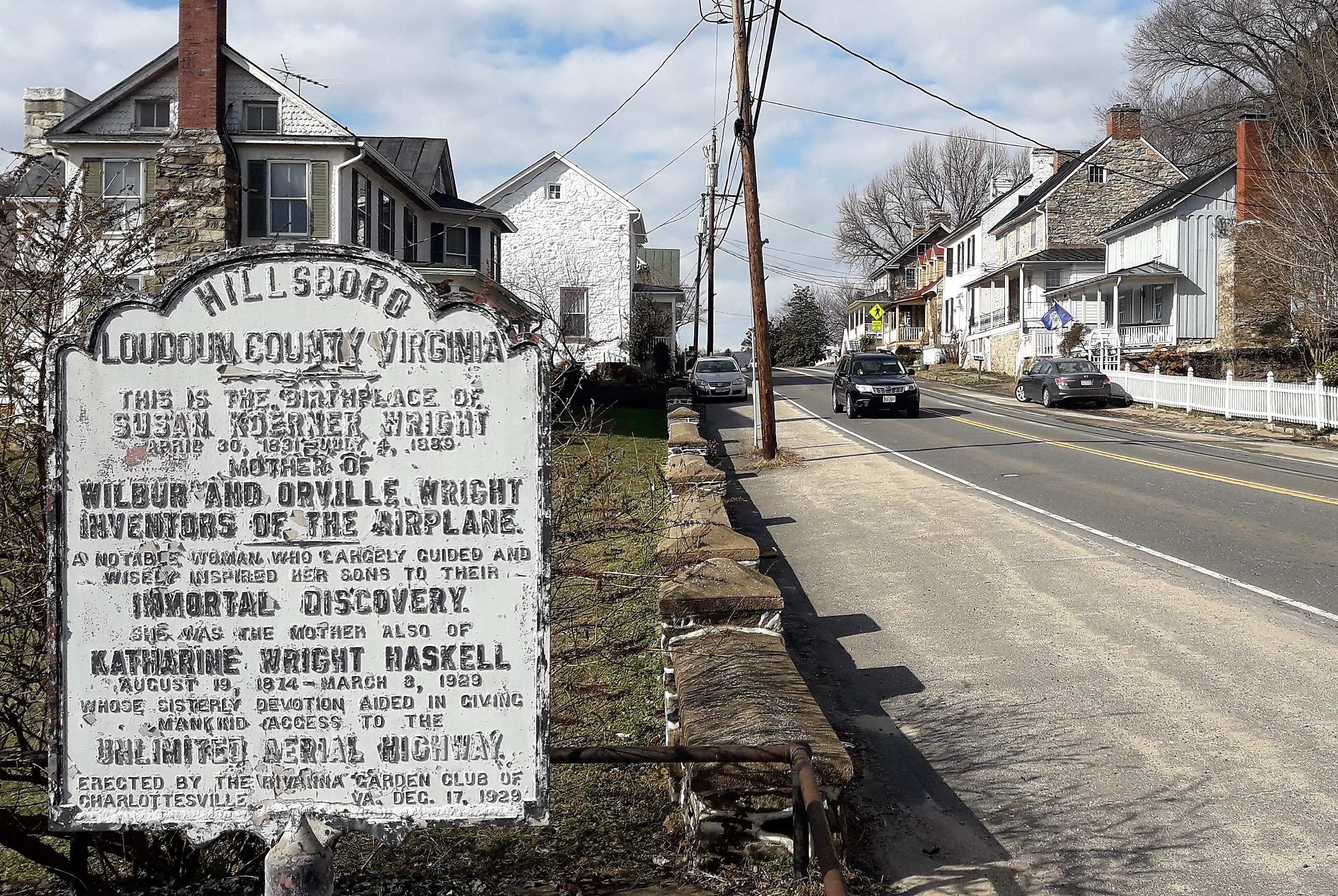 Susan Koerner Wright (the mother of the Wright brothers) birthplace plaque in Hillsboro, VA